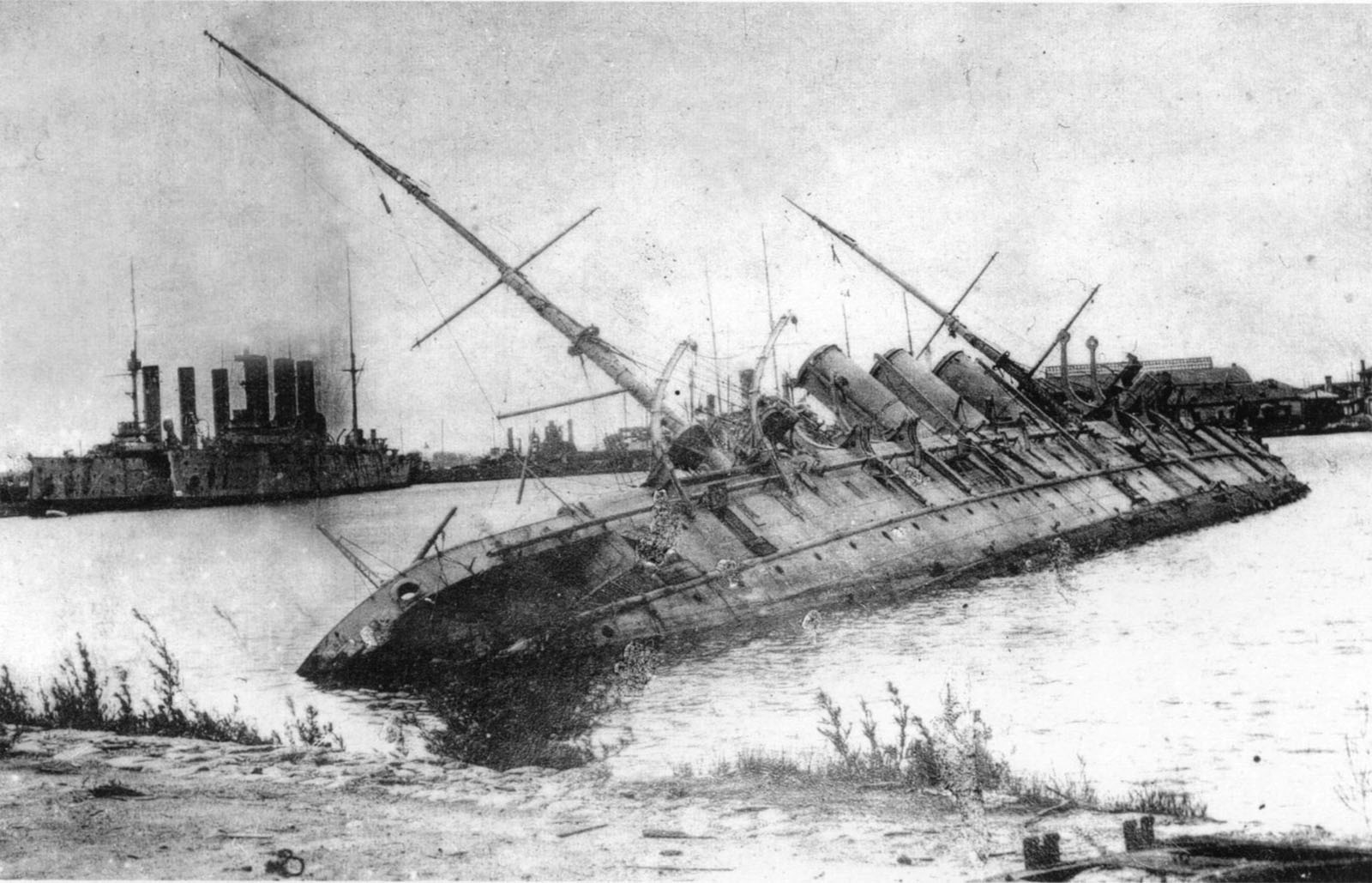 Imperial Russian training ship Pamyat' Azova in Kronstadt, 1919-1921.